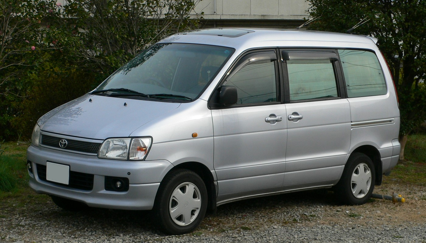 Toyota_Liteace-Noah (1996)